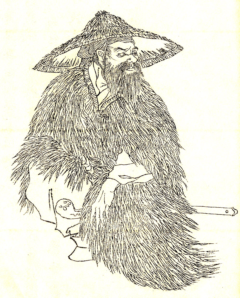 Shinetsuhiko（椎根津彦）was a God of Japanese Mythology.